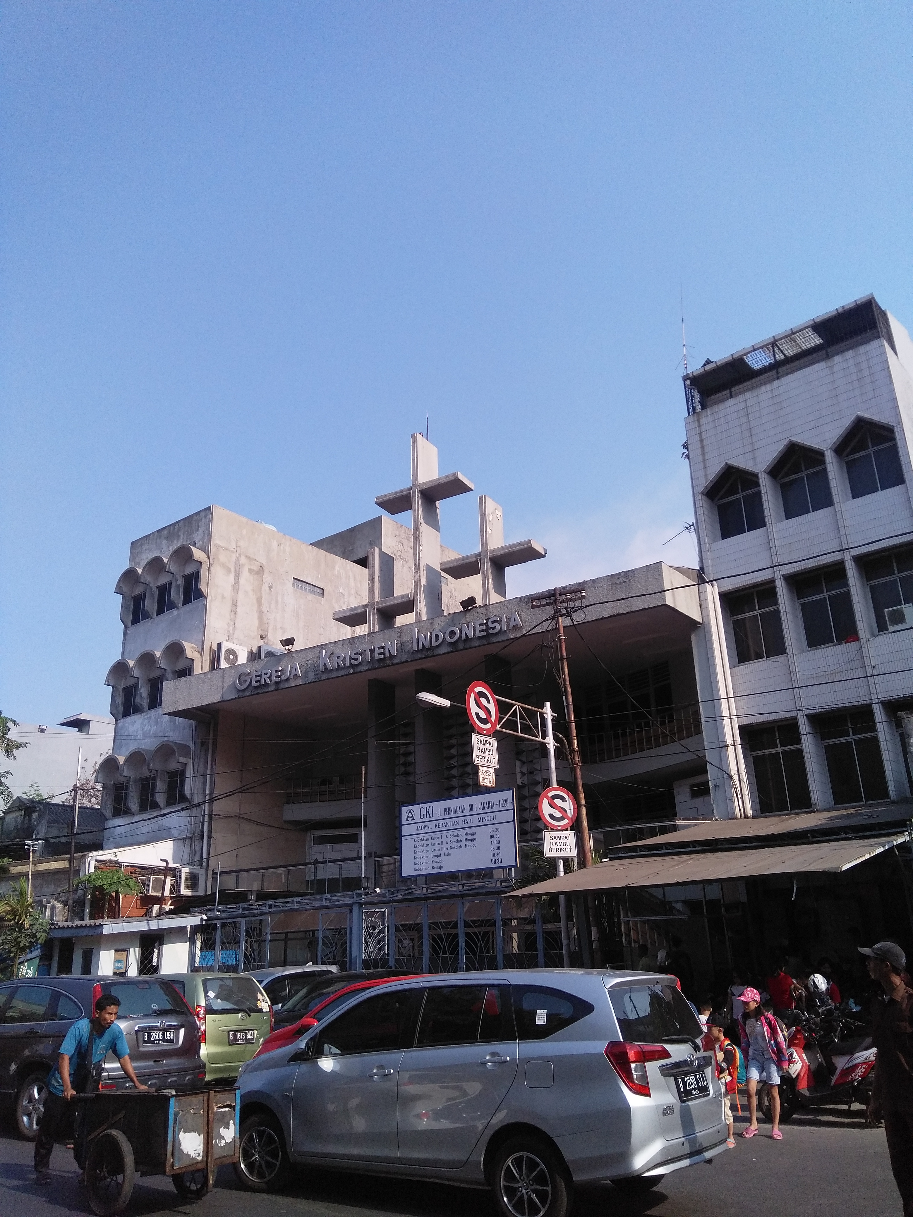 Gereja Kristen Indonesia - Jalan Perniagaan